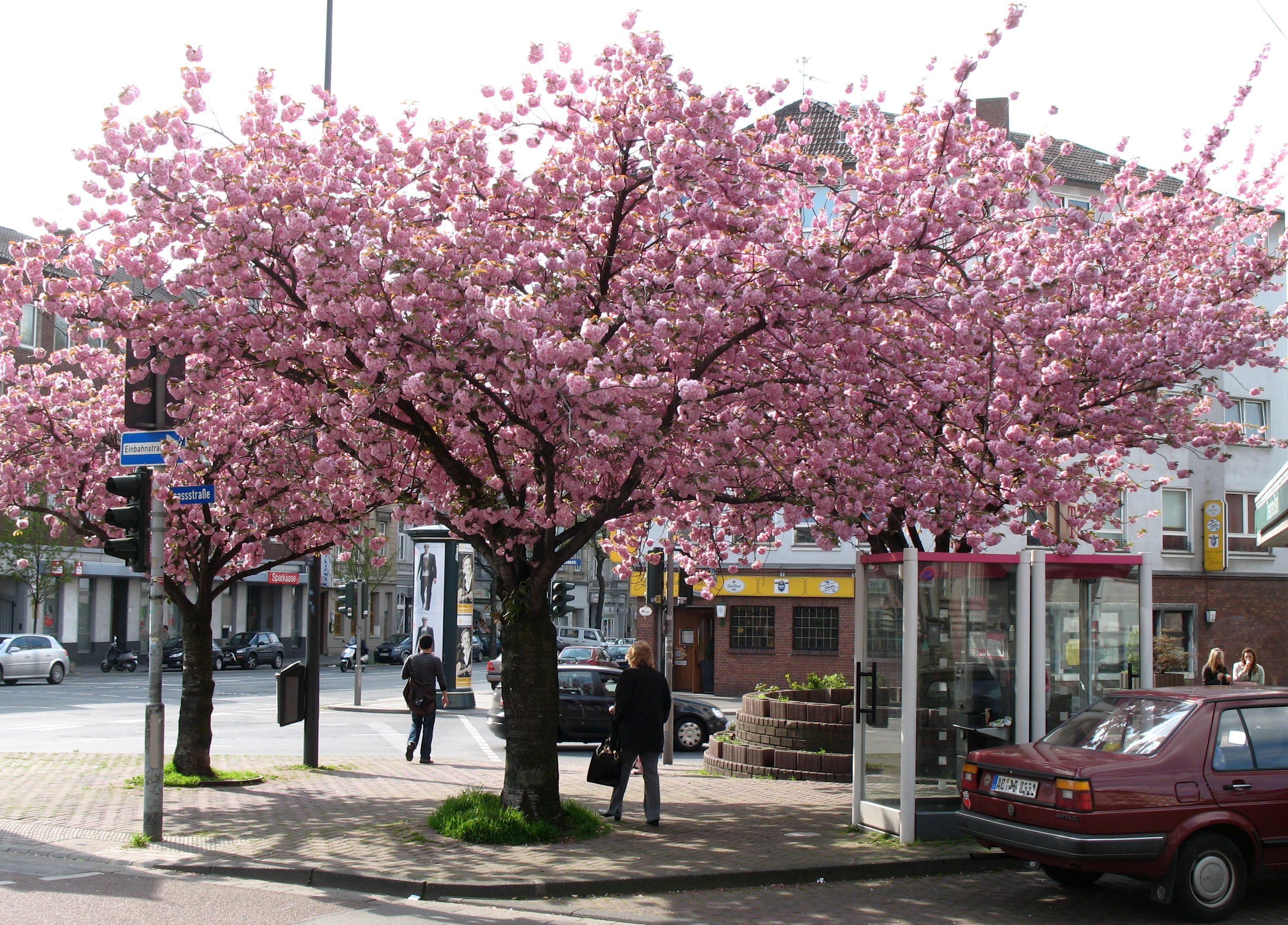 Blossoming Japanese Cherry trees on Elsass street in Aachen, Germany